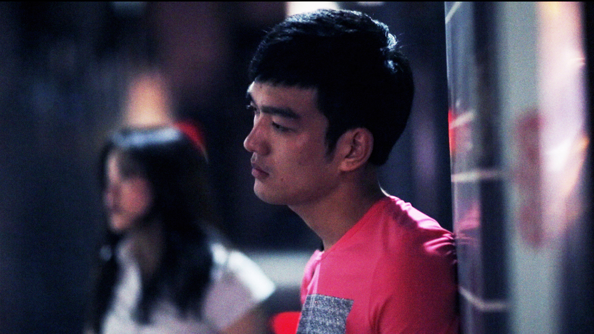 Wan Yinhui and Xia Ruihong in a scene of Ni Jing Thou Shalt Not Steal (a film by Roberto F. Canuto & Xu Xiaoxi)